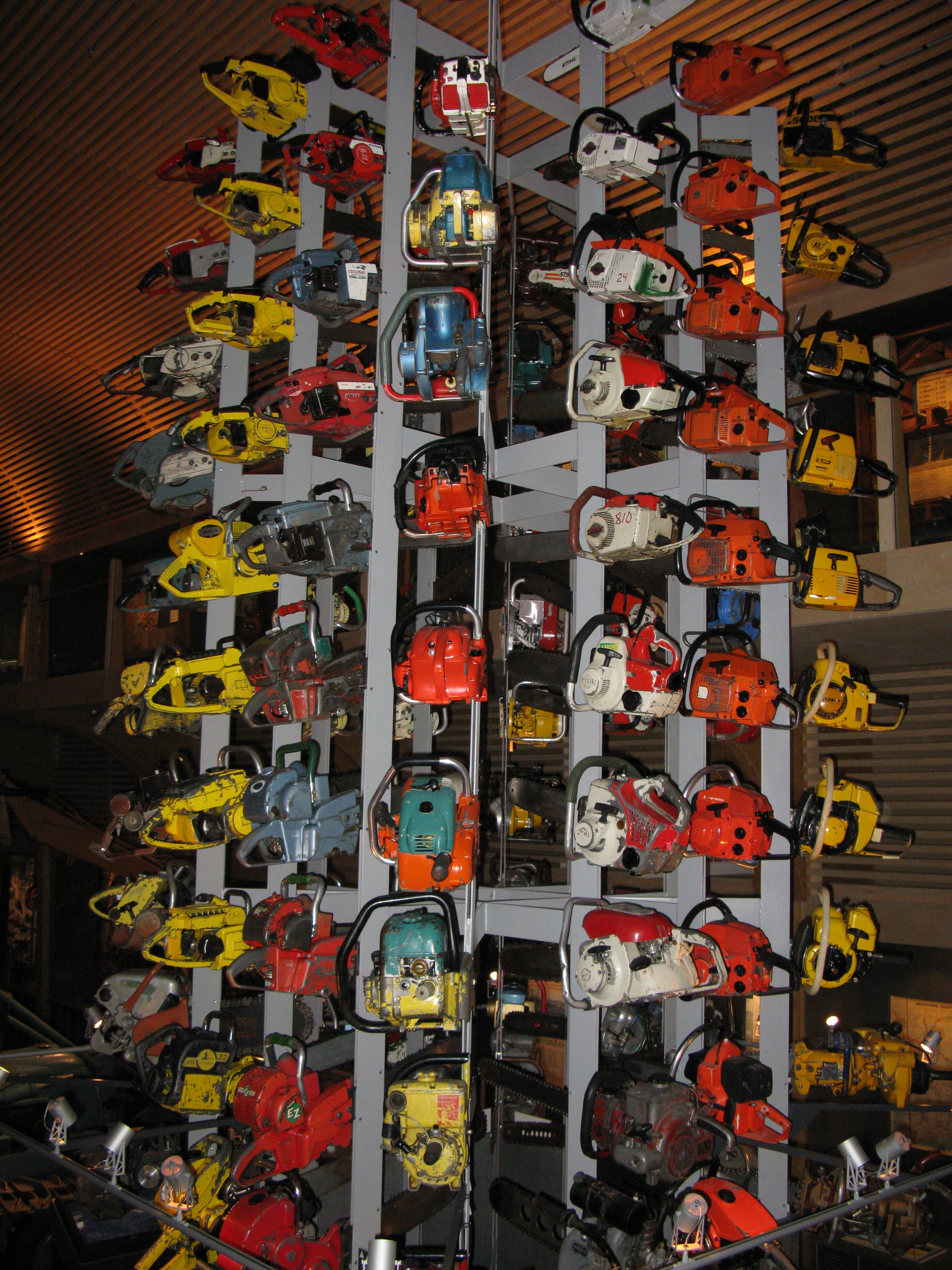 Chainsaws stocked in the forestry museum Lusto in Punkaharju, Finland